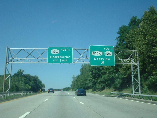 The Sprain Brook Parkway at the exit for NY 100 and NY 100C in Greenburgh, New York.